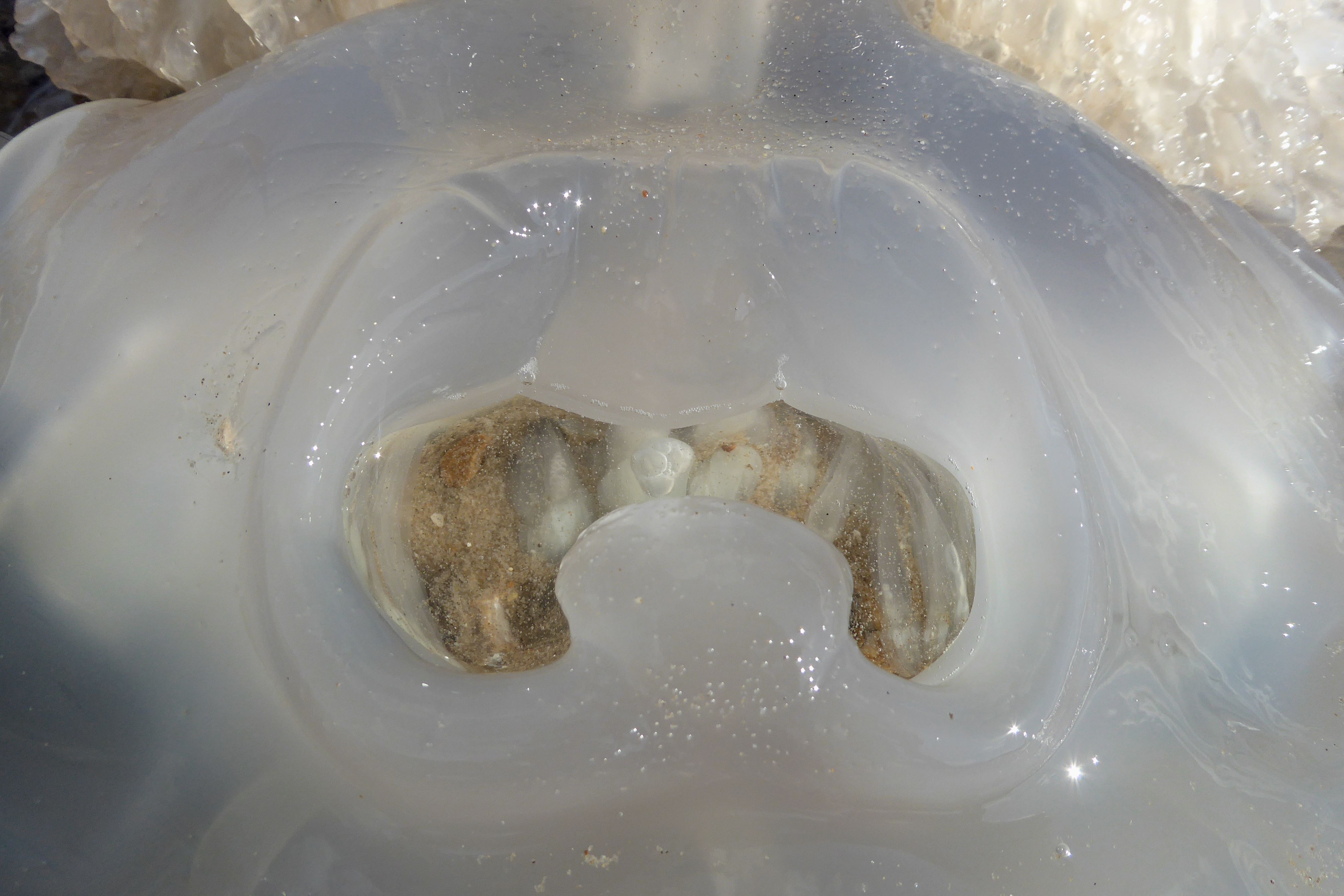 An orifice on a Rhizostoma pulmo washed ashore at Bournemouth in Dorset.